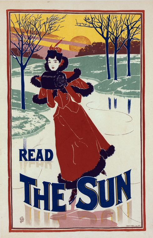 Louis Rhead: Affiche américaine pour le journal "The Sun" (New York City)